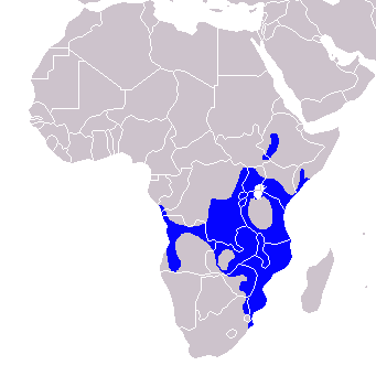 Tockus alboterminatus - Distribution